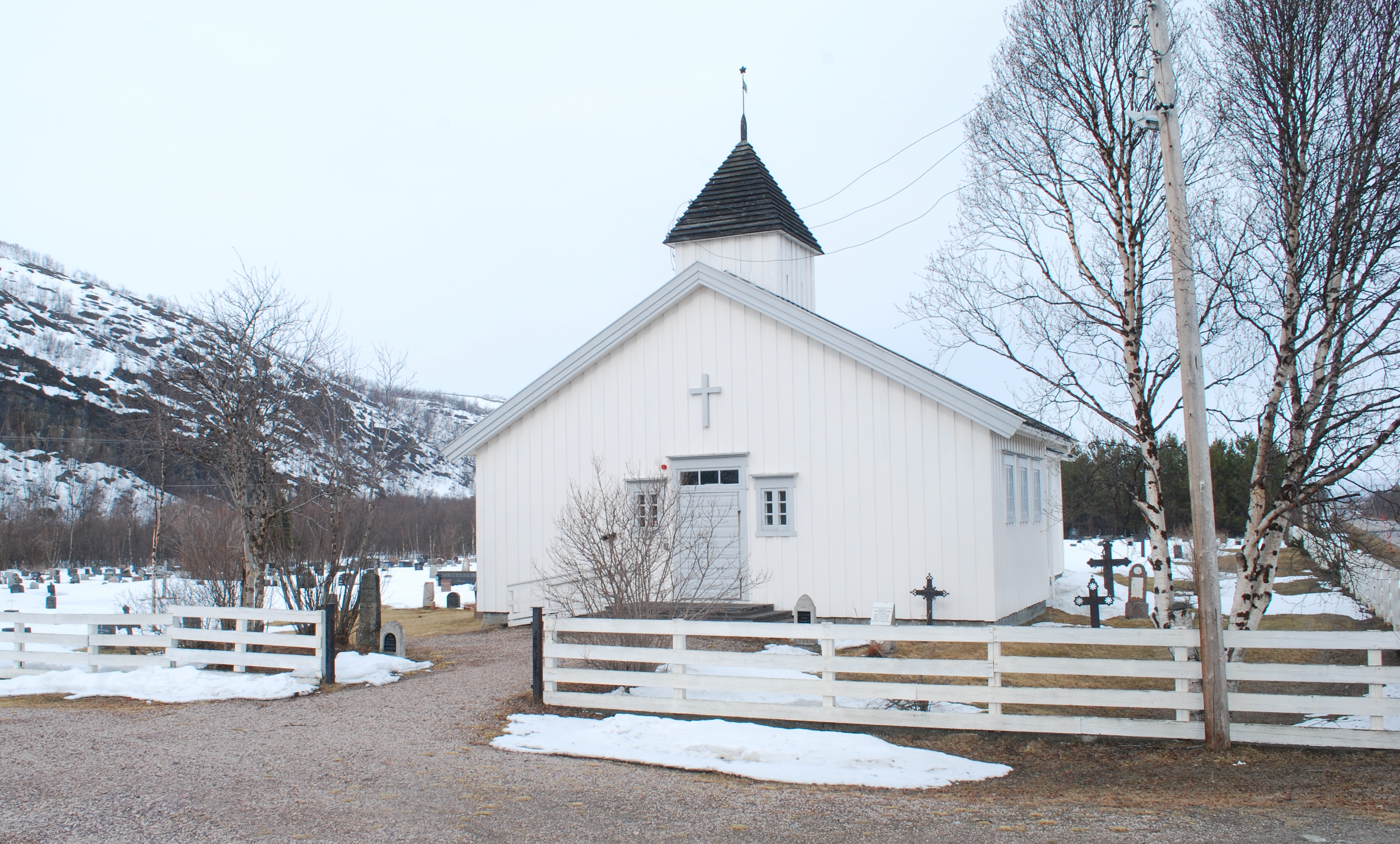 Polmak kirke, Tana kommune Polmak Church, Tana municipality, Finnmark, Norway